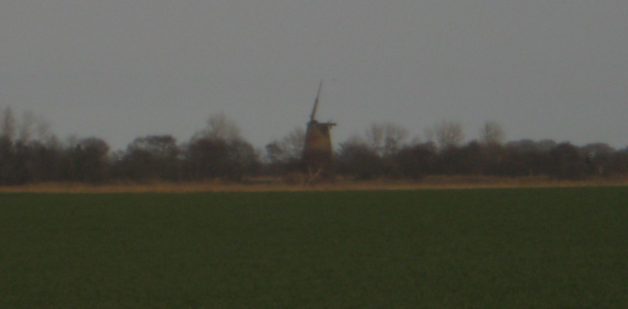 Lambridge Mill, Norfolk, Taken from the closest possible public right of way.